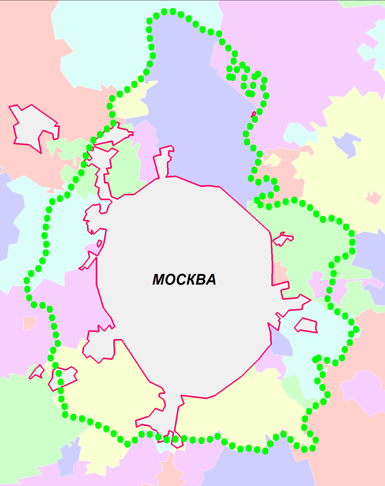 Moscow Forest-Park Ring boundaries in comparision to the actual administrative divisions (rayon and urban okrug level)